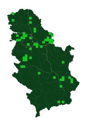 Rasprsotranjenje vrste u Srbiji (Alciphron)